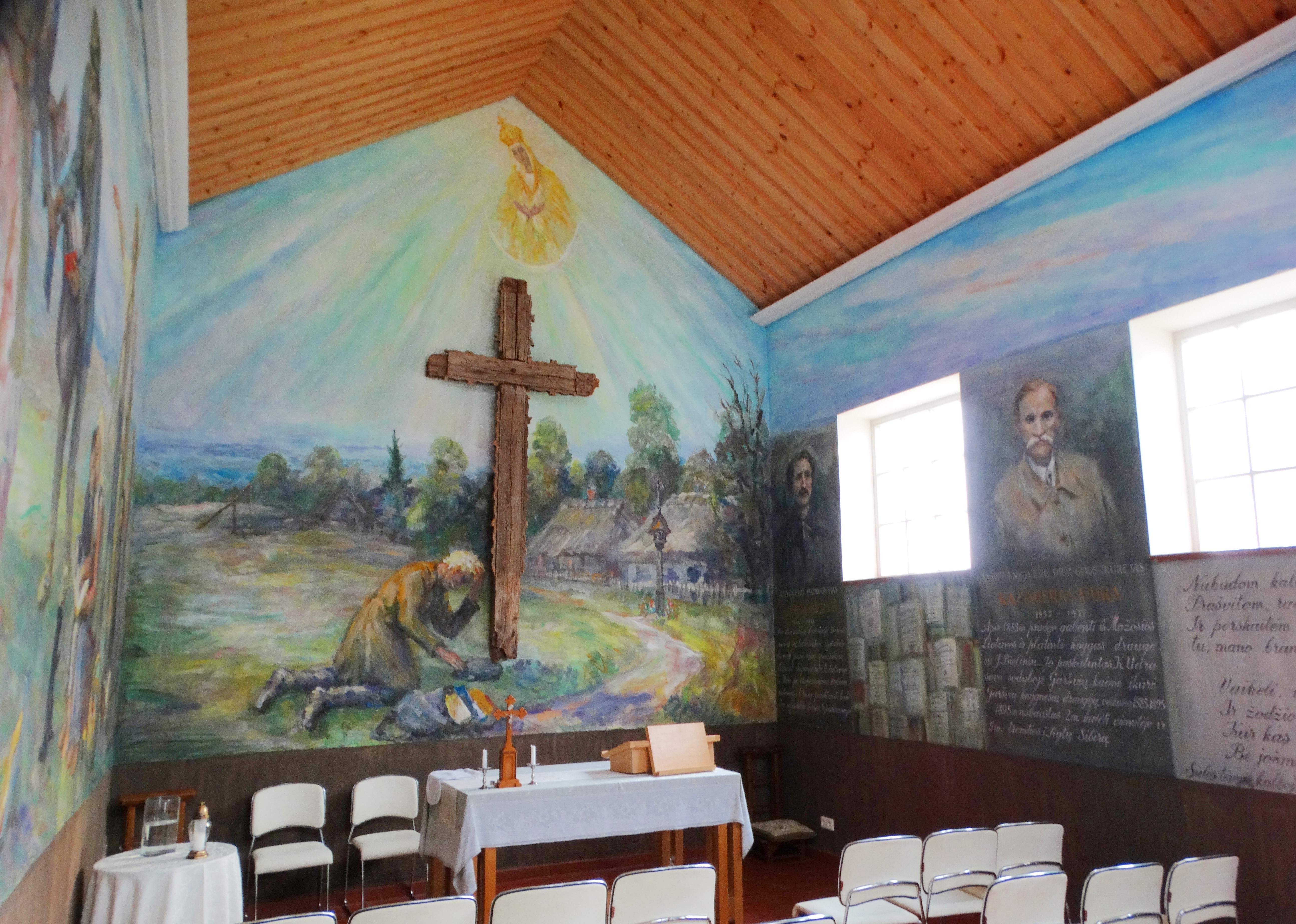 Bistrampolis, chapel interior, Panevėžys District, Lithuania